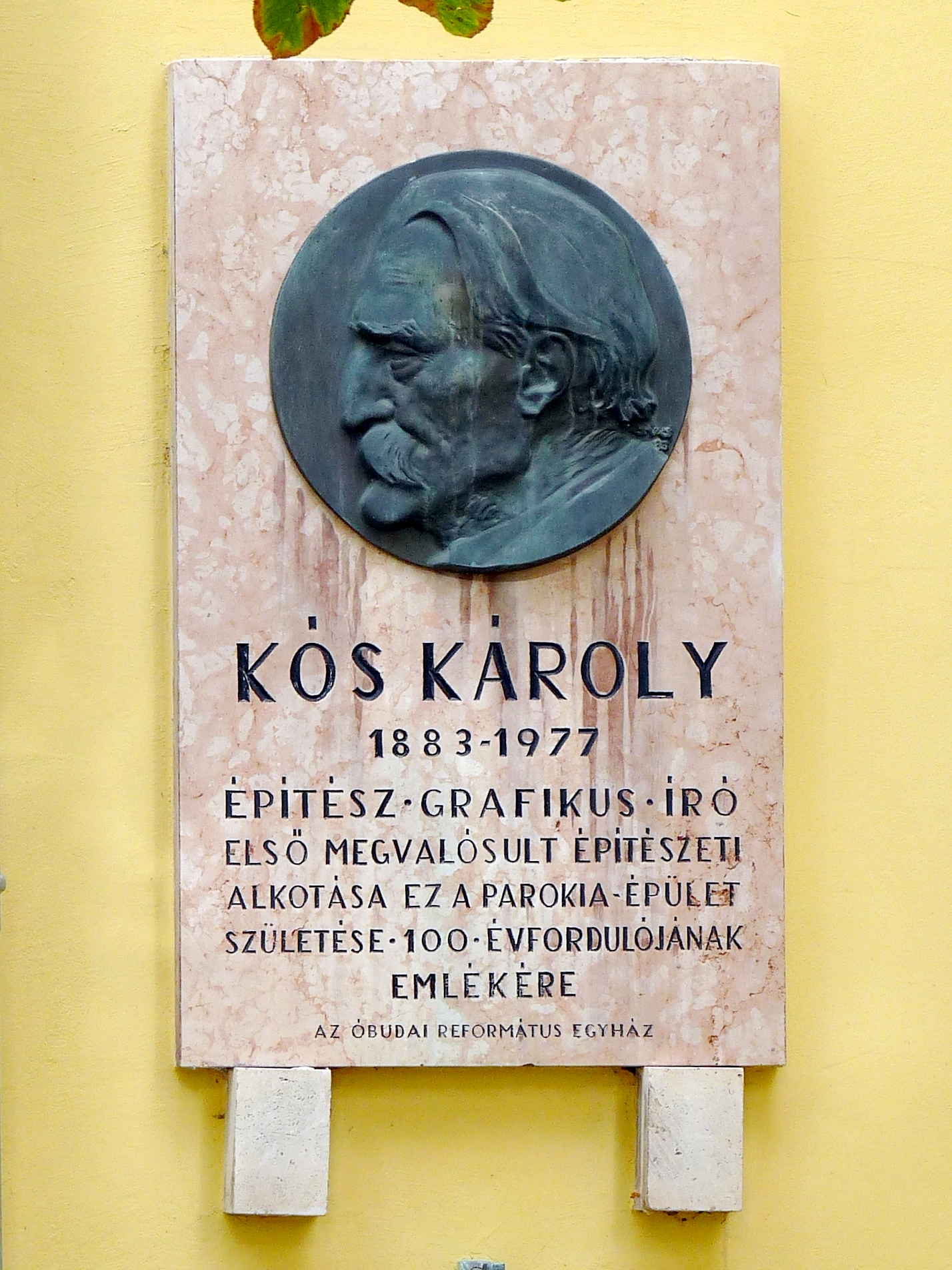 Károly Kós' commemorative plaque on the Parish of the Reformed Church of Óbuda.